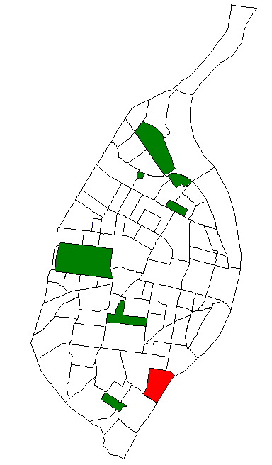 Map of St. Louis Neighborhood #17